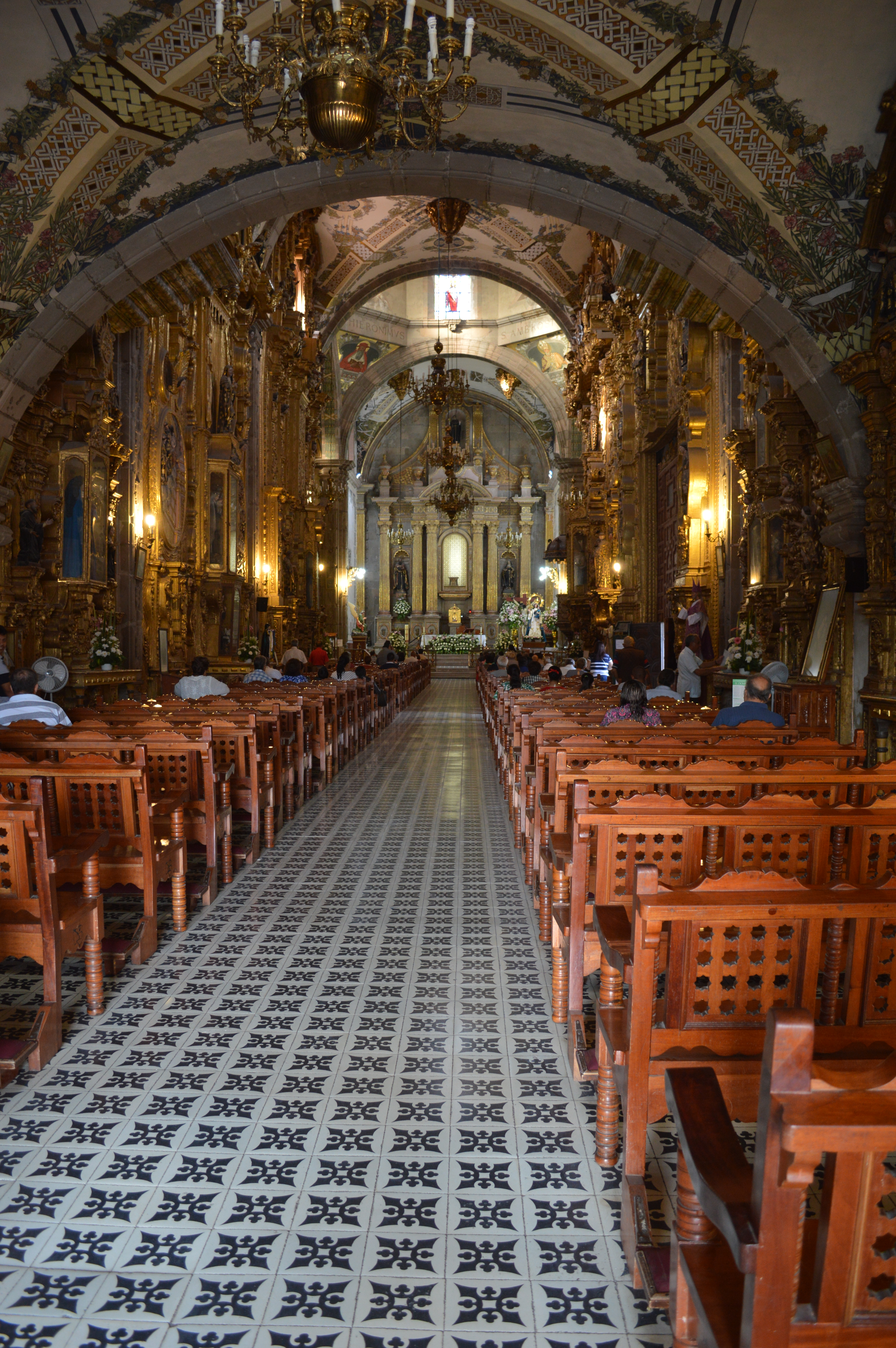 Interior of the San Agustin Temple in Salamanca, Guanajuato, Mexico